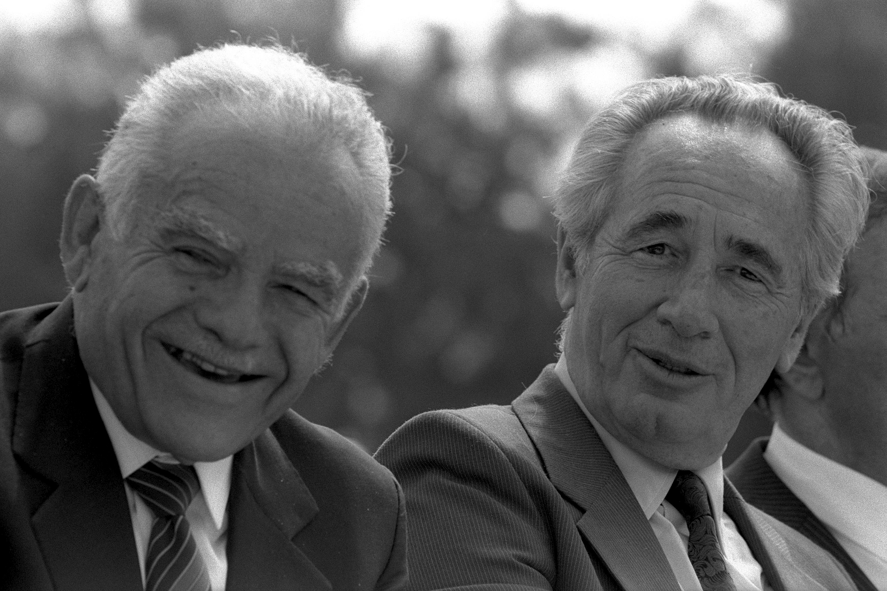 Prime Minister Yitzhak Shamir and Foreign Minister Shimon Peres look amused during the Mimouna celebrations at the Sacher Park in Jerusalem. ראש הממשלה יצחק שמיר ושר החוץ שמעון פרס בחגיגות המימונה בגן סאקר, בירושלים. Photo: HARNIK NATI, 03/15/1988